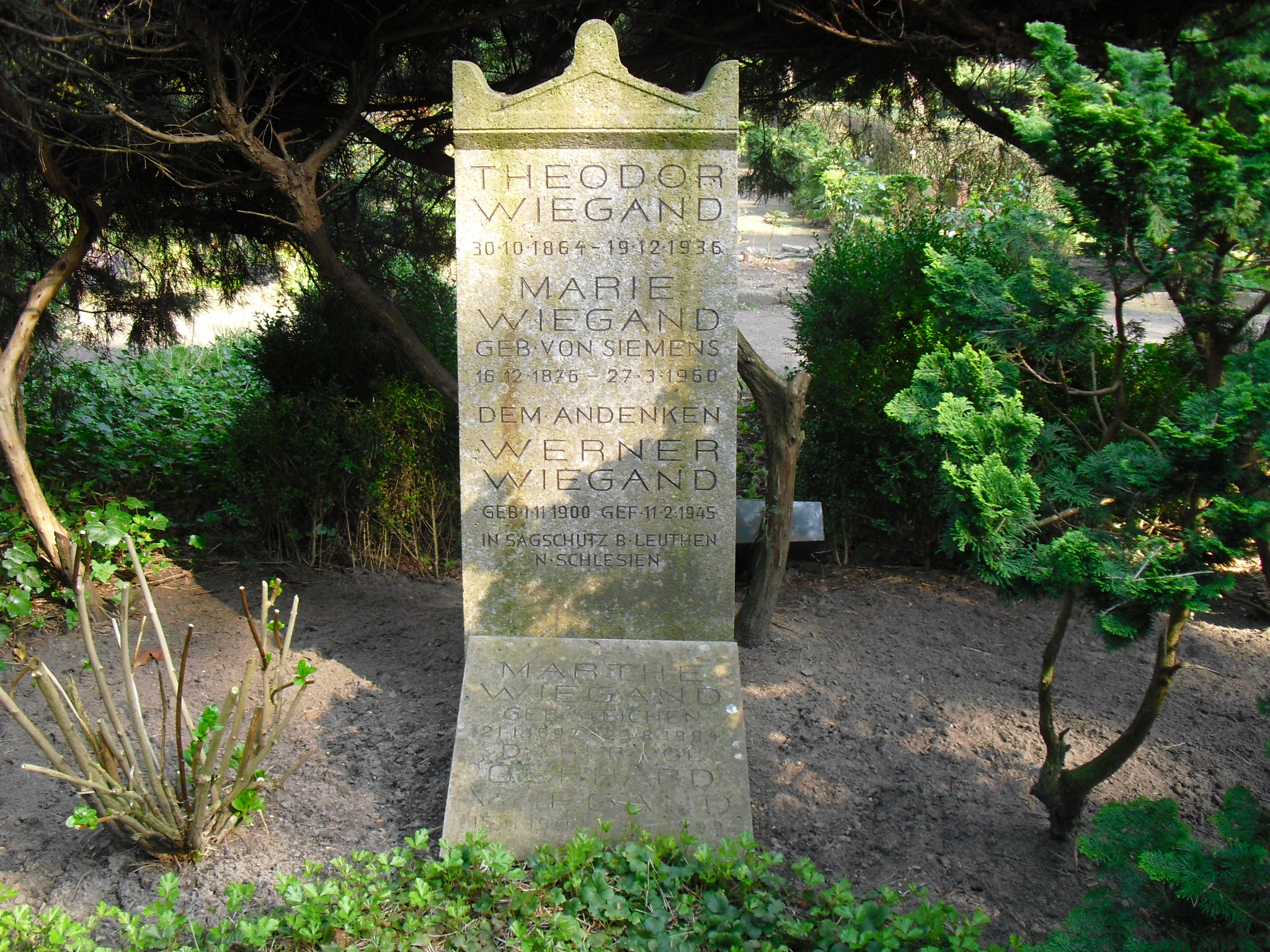 Grave of Theodor Wiegand and Marie Wiegand in Waldfriedhof Dahlem in Berlin-Dahlem